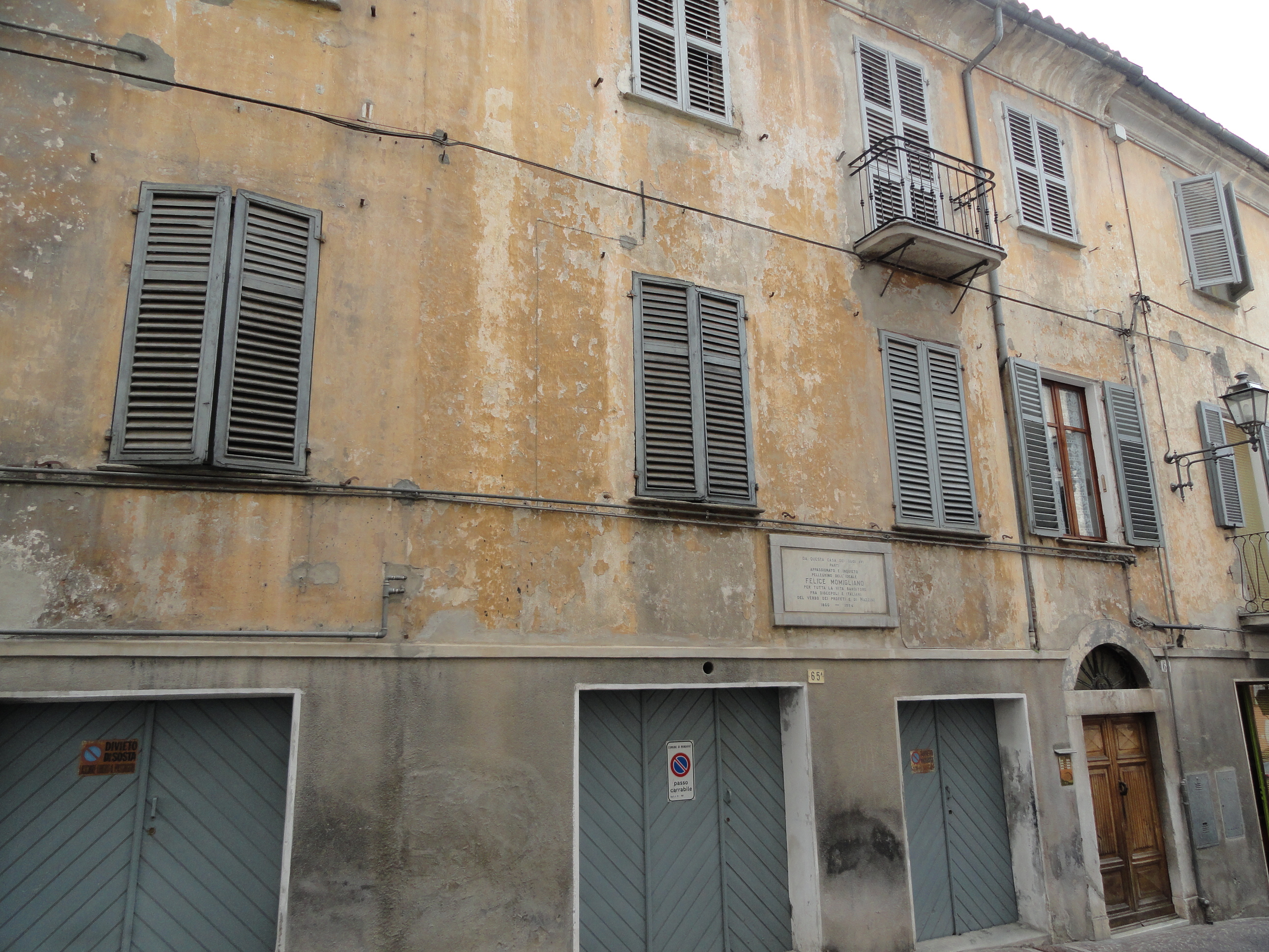 Front of the synagogue of Mondovì (Piedmont, Italy)